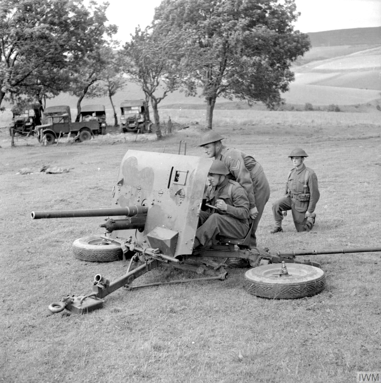 The British Army in the United Kingdom 1939-45 2-pounder anti-tank gun of 52nd Reconnaissance Regiment, Scotland, 3 September 1942.